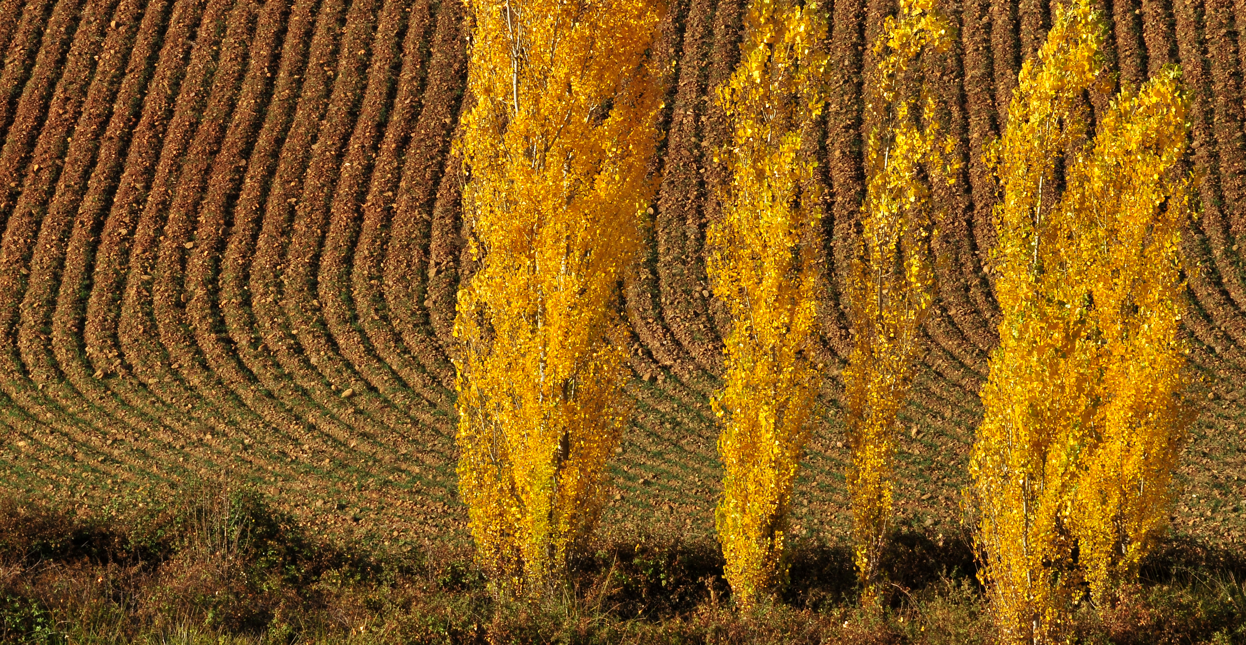 Poplars at dawn and ploughed field. Retamoso de la Jara, Toledo, Castile-La Mancha, Spain